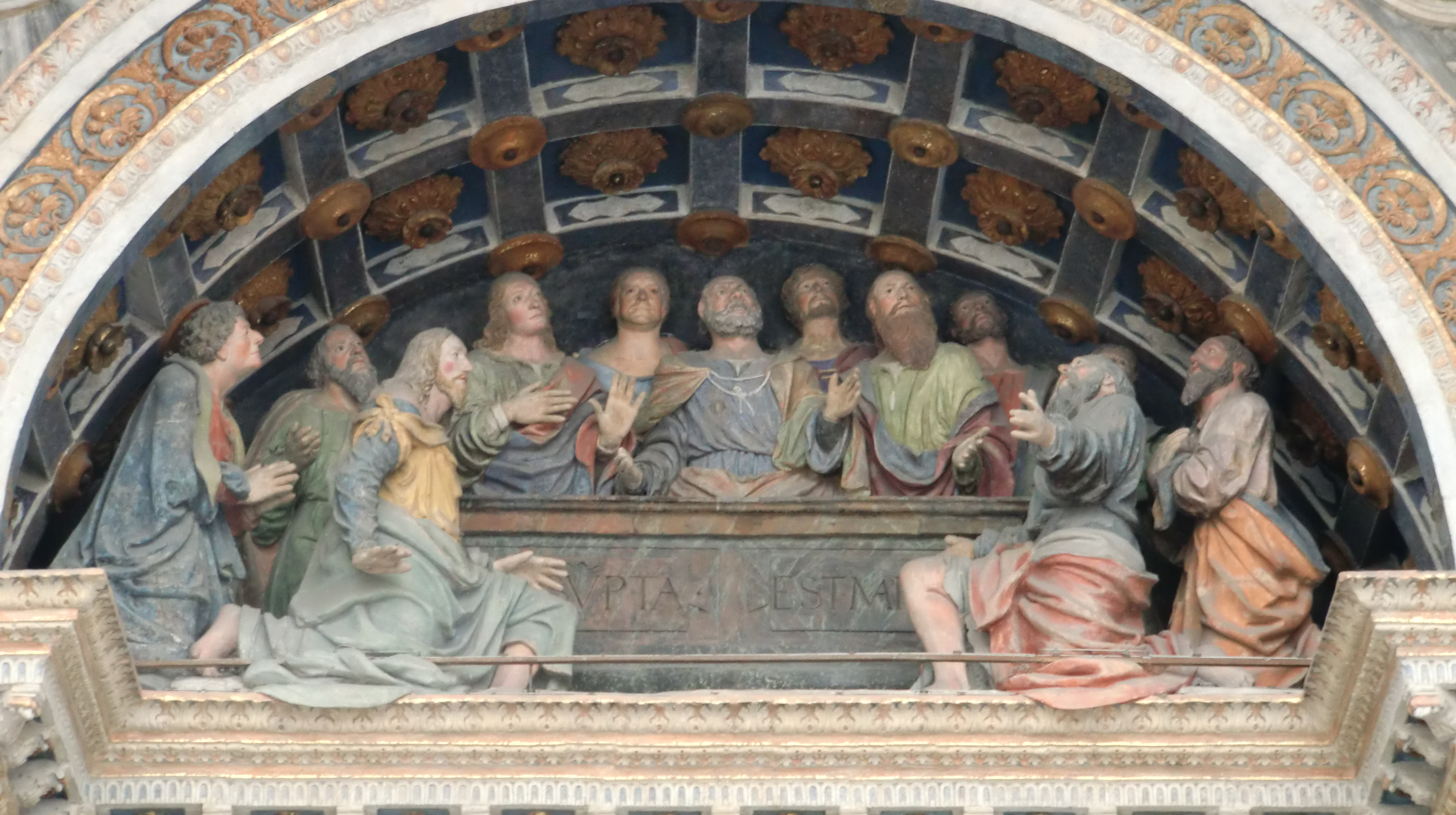 Aosta, Cathedral, Facade, Assumption of Mary, polychrome terracotta, 1522-26